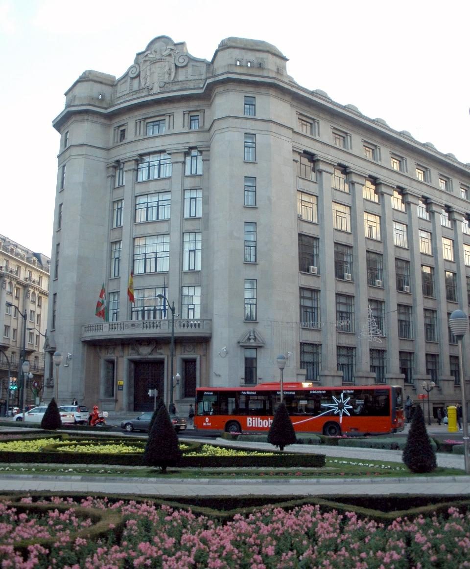 Agencia Estatal de Administración Tributaria, Bilbao.